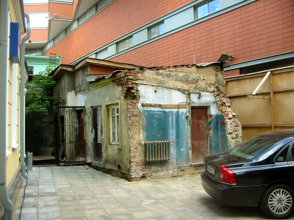 Zamoskvorechye, Moscow. Weird. The Turks demolished an old downtown block for a shopping mall (the red thing) but retained this shack standing (now of course it's gone).